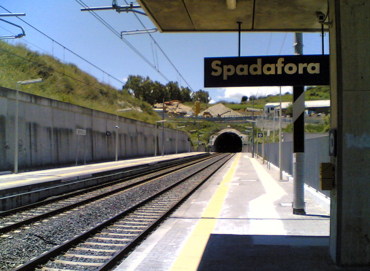 Spadafora train station, platform 1, view towards West (to Palermo).